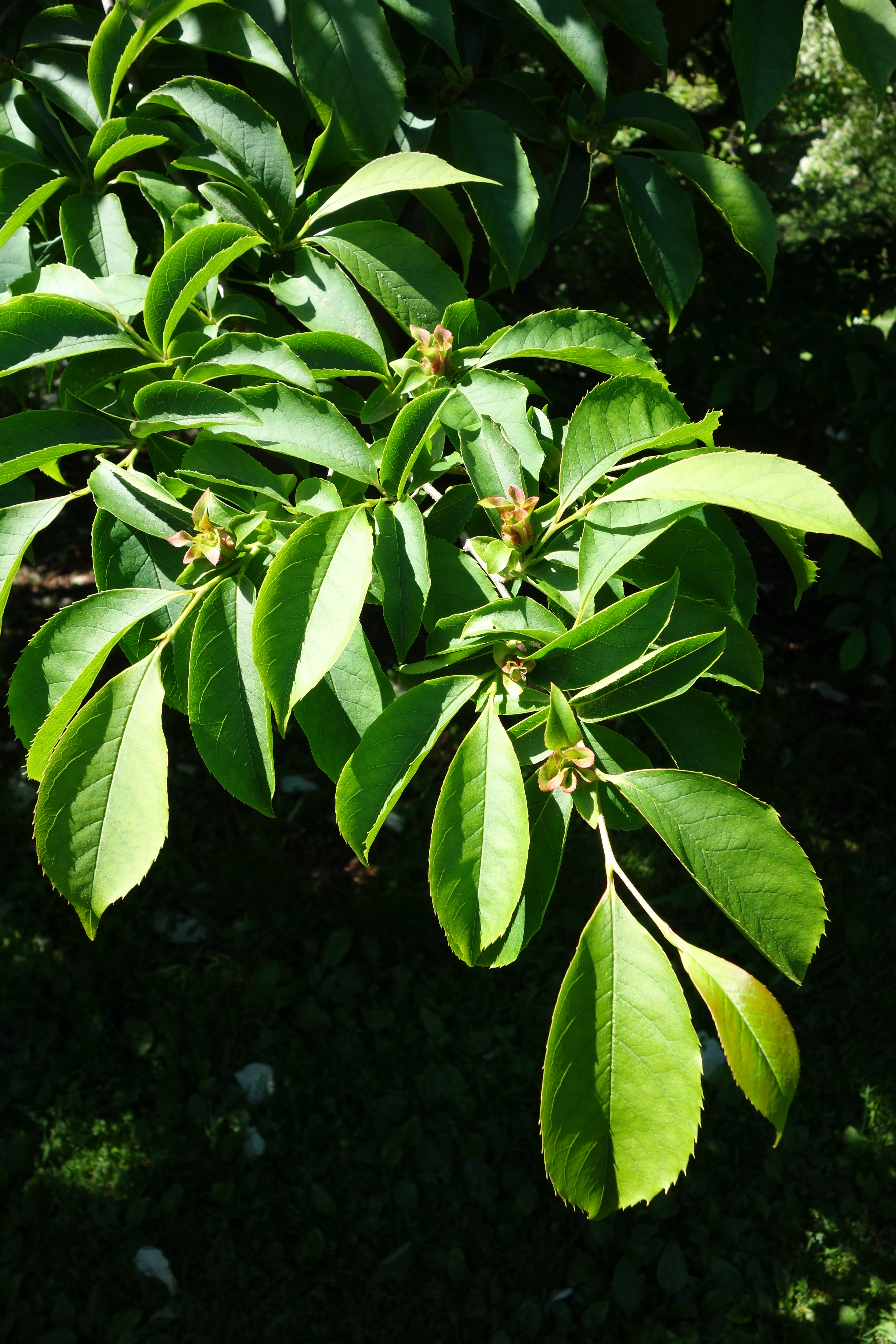 Botanical specimen in Arnold Arboretum, Jamaica Plain, Boston, Massachusetts, USA.